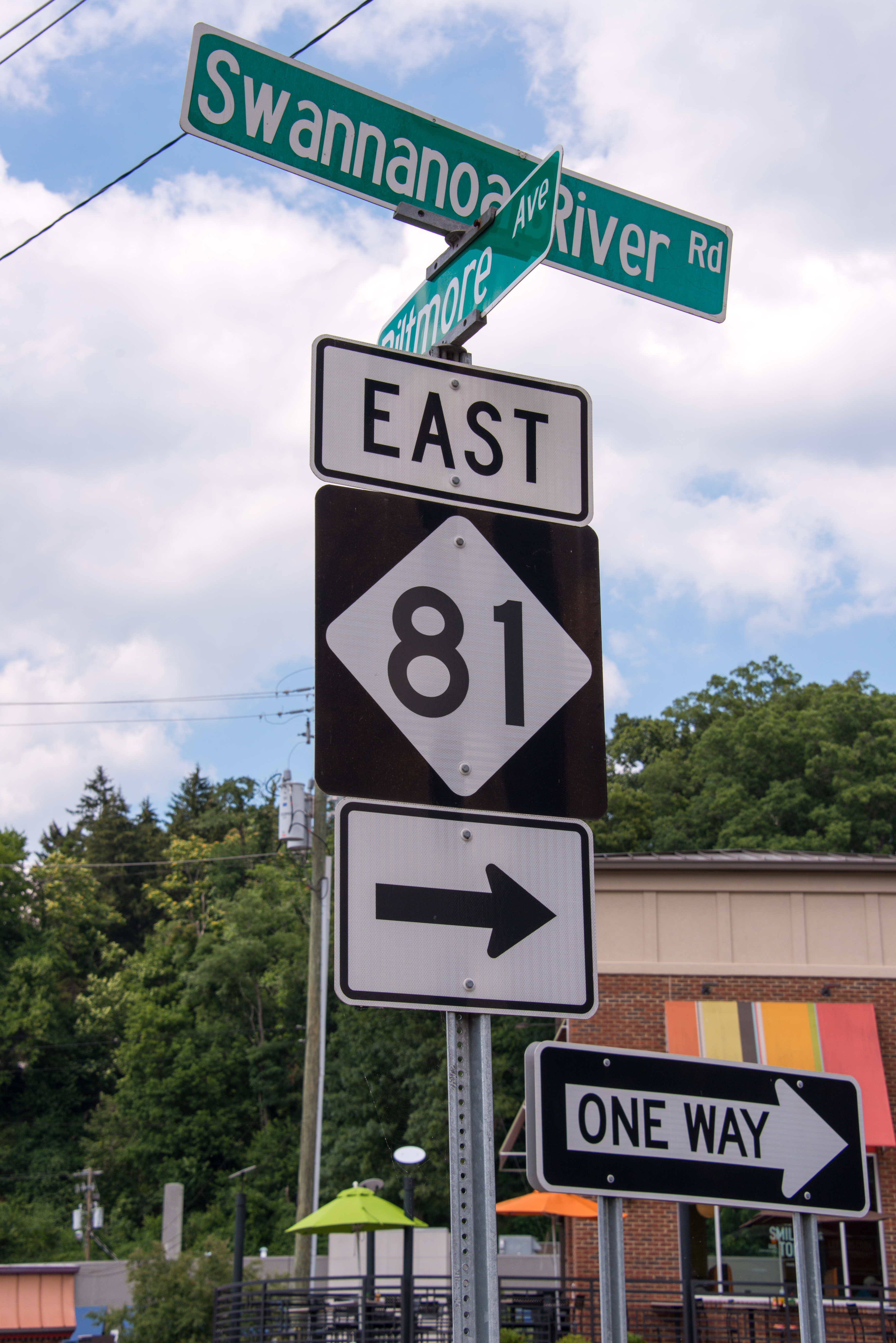 Eastbound North Carolina Highway 81, at the intersection of Biltmore Avenue and Swannanoa River Road, in Asheville, North Carolina.